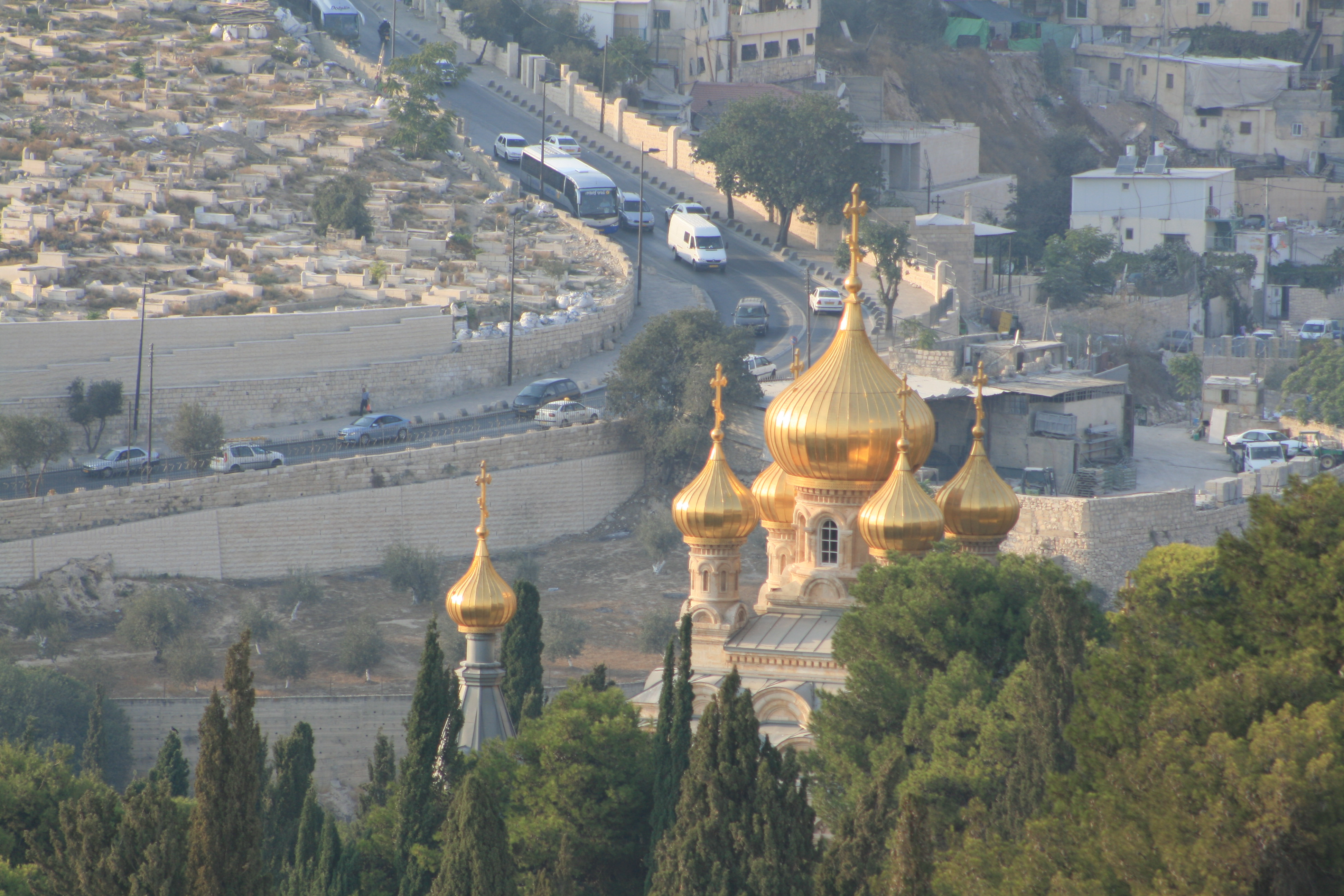 Saint Mary Magdalene Church, Jerusalem